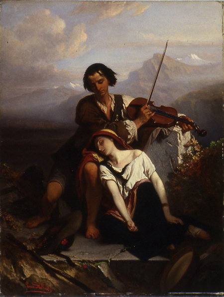 A letter written by the artist to William Walters dated July 20, 1860 illuminates the subject of this painting. It shows a brother and sister resting before an old tomb. The brother is attempting to comfort his sibling by playing the violin, and she has fallen into a deep sleep, "oblivious of all grief, mental and physical." This composition exists in at least one other version, now preserved at the Hermitage Museum in St. Petersburg. A closely related reduced replica was given to the Musées royaux des Beaux-Arts de Belgique by a descendant of the artist. The melancholic subject's popularity is attested by its reproduction on a porcelain plaque manufactured by the Royal Porcelain Factory, Berlin.